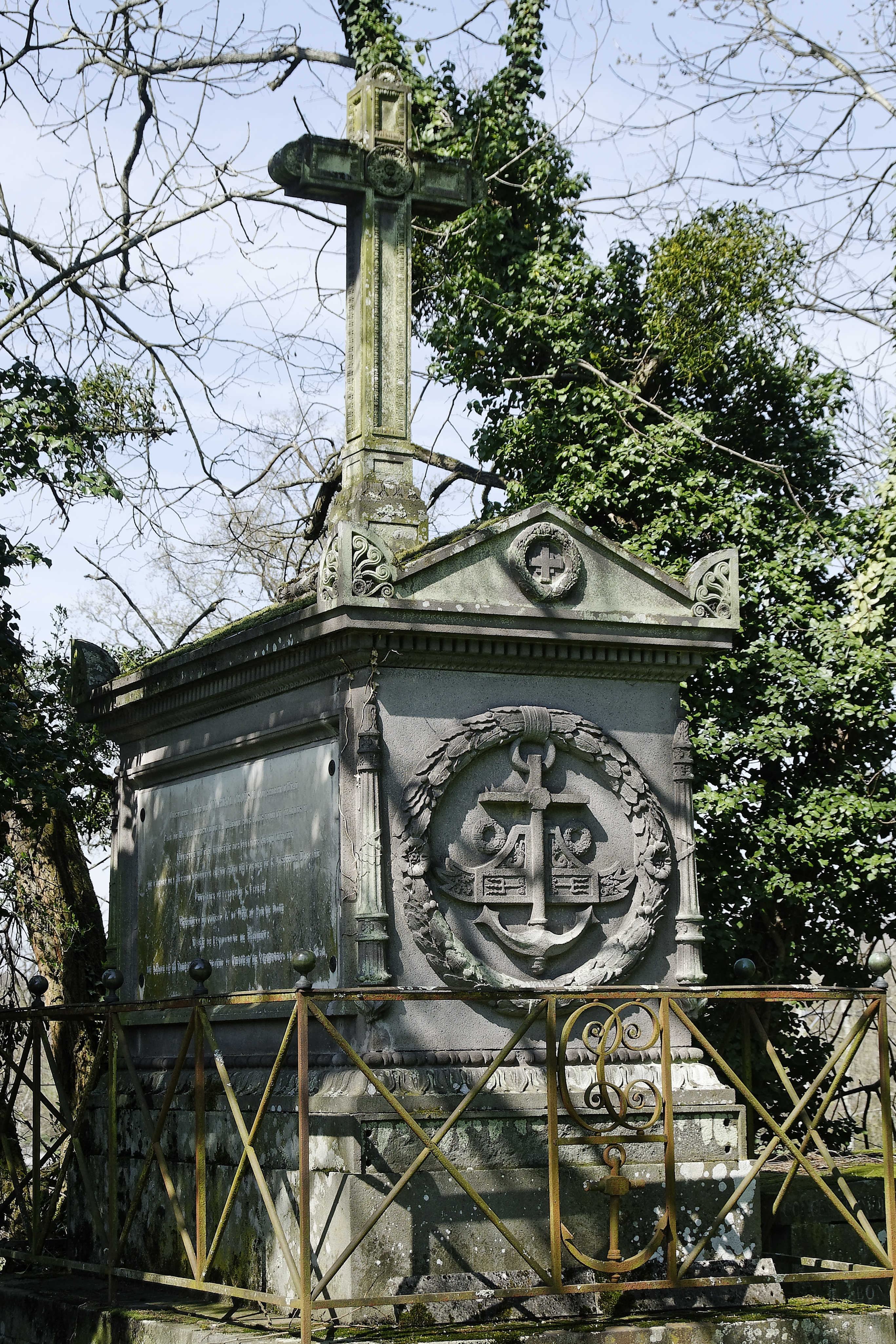 Tomb of Christophe, earl of Chabrol-Crouzol in Paslières, France. Andesite, 1836.